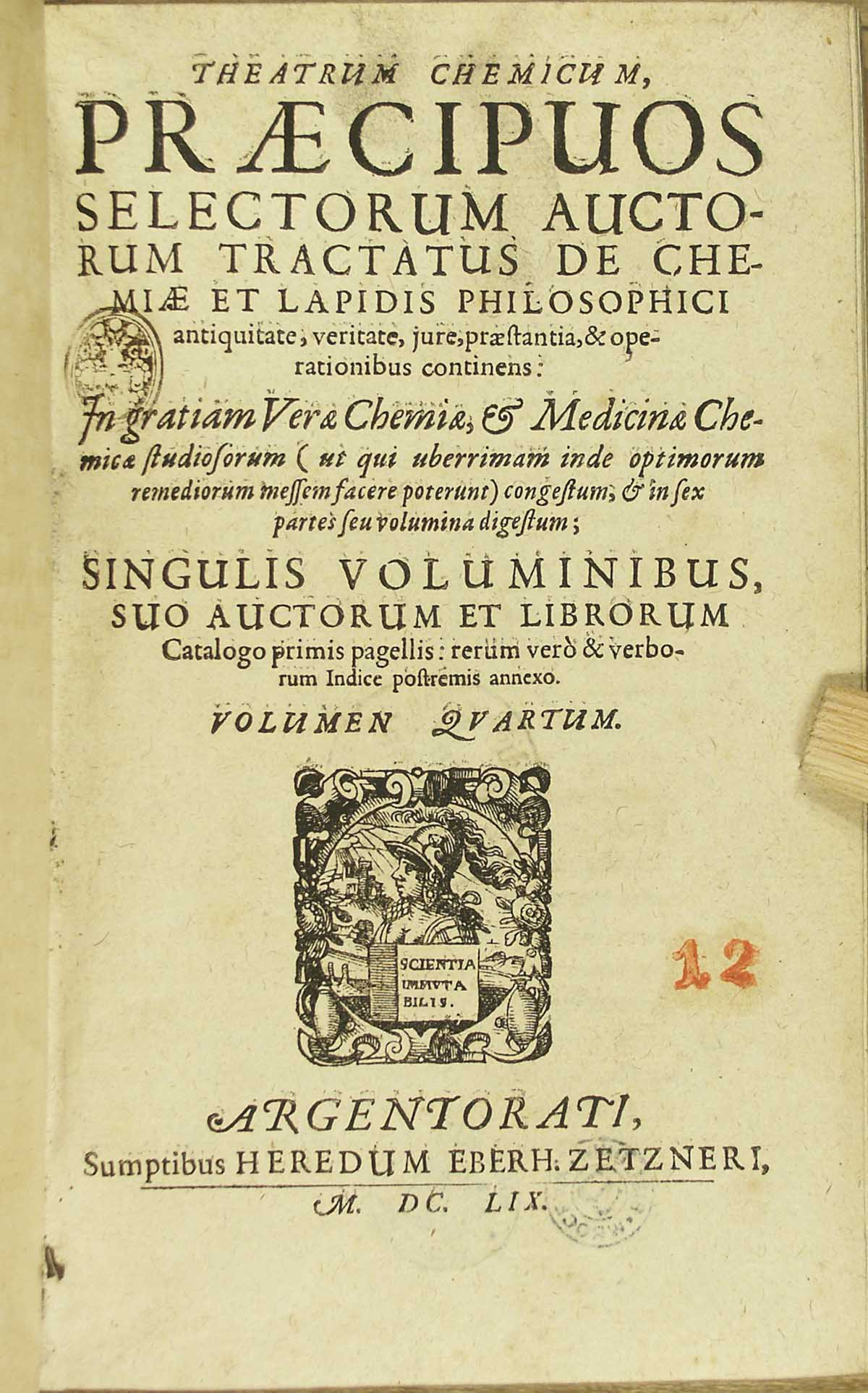 Page 1 of "Theatrum Chemicum", Volume IV, printed 1613 in Strasburg, France by Lazarus Zetzner (Zetznerni, Zetznerus)